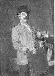 Picture of Louis Apol